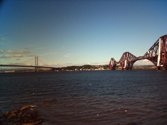 Forth Bridges. A warm autumn lunchtime with the rail bridge undergoing a paint job